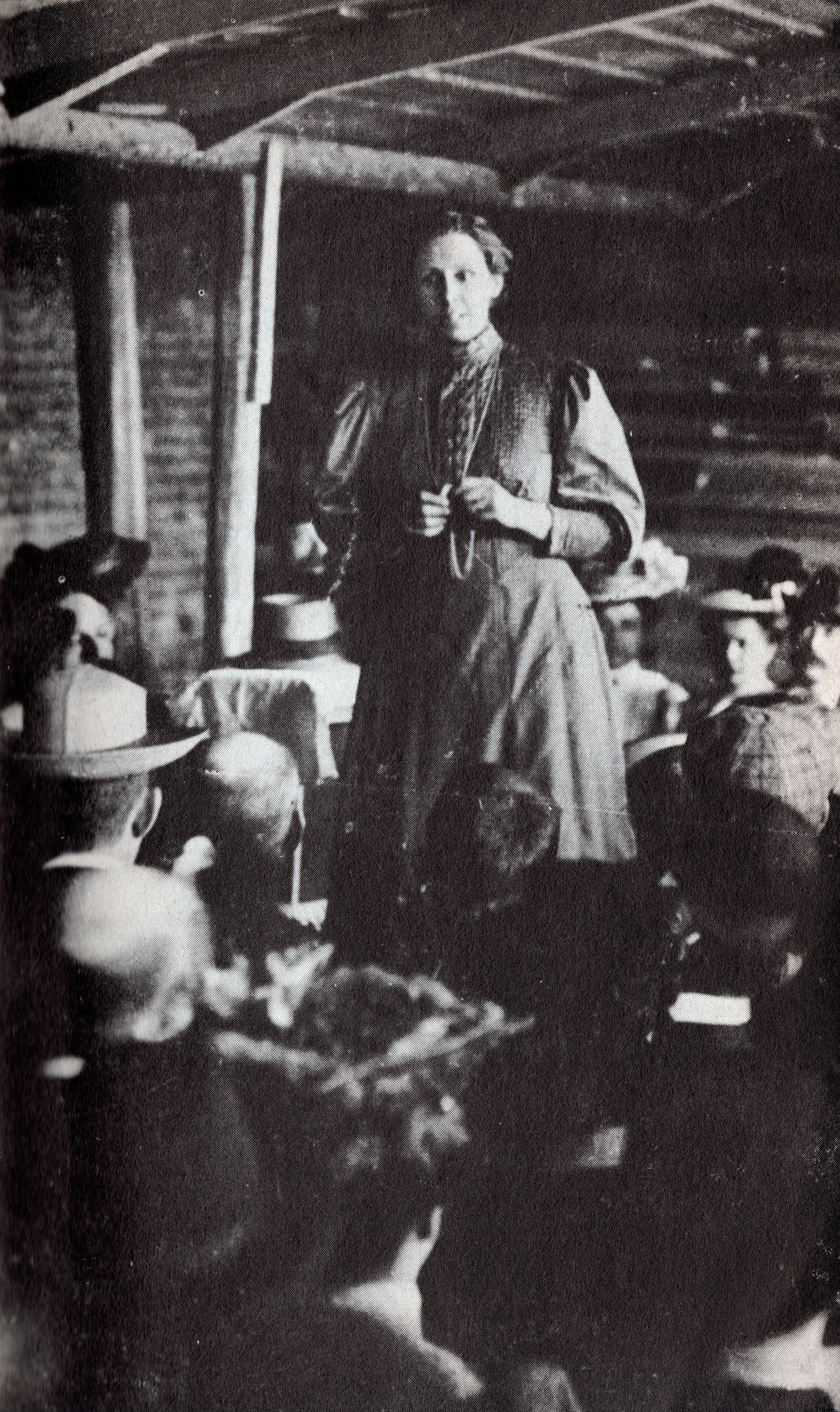 Henriëtte Roland Holst-van der Schalk spreekt op meeting voor algemeen kiesrecht